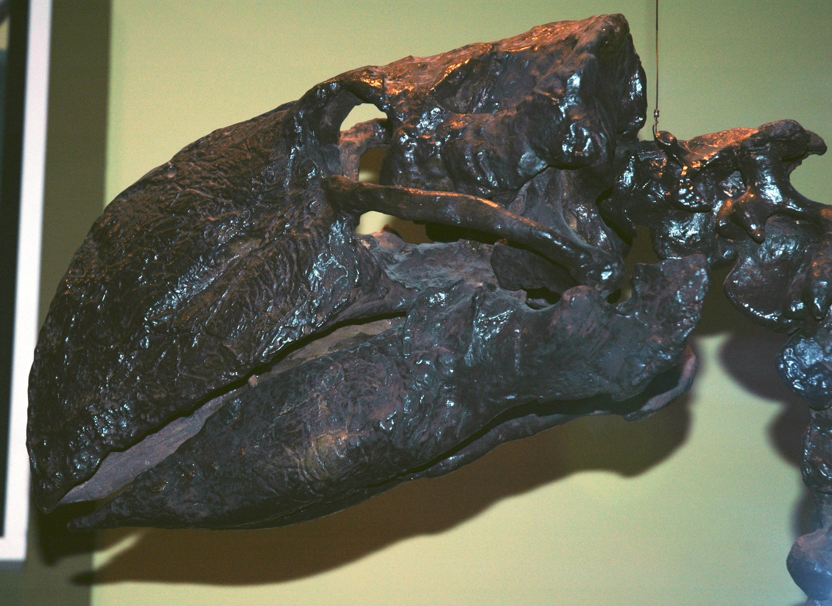 Diatryma fossil bird (a.k.a. Gastornis) from the Eocene of Wyoming, USA (public display, Cleveland Museum of Natural History, Cleveland, Ohio, USA). Diatryma is often referred to as a “terror bird” because of its size, sharp beak, and inferred predatory nature. The feet of Diatryma lack curved, sharp claws, which would be expected in a predatory bird, so it has been reinterpretd as a herbivore. These extinct birds were flightless and quite large - they stood an estimated 2 to 2.5 meters tall. They are known from the Paleocene and Eocene of eastern Asia, Europe, and North America. Classification: Animalia, Chordata, Vertebrata, Aves, Anseriformes, Gastornithidae Birds are small to large, warm-blooded, egg-laying, feathered, bipedal vertebrates capable of powered flight (although some are secondarily flightless). Many scientists characterize birds as dinosaurs, but this is consequence of the physical structure of evolutionary diagrams. Birds aren’t dinosaurs. They’re birds. The logic & rationale that some use to justify statements such as “birds are dinosaurs” is the same logic & rationale that results in saying “vertebrates are echinoderms”. Well, no one says the latter. No one should say the former, either. However, birds are evolutionarily derived from theropod dinosaurs. Birds first appeared in the Triassic or Jurassic, depending on which avian paleontologist you ask. They inhabit a wide variety of terrestrial and surface marine environments, and exhibit considerable variation in behaviors and diets.